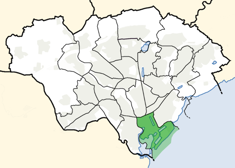 Location map showing electoral ward of Butetown within Cardiff, Wales